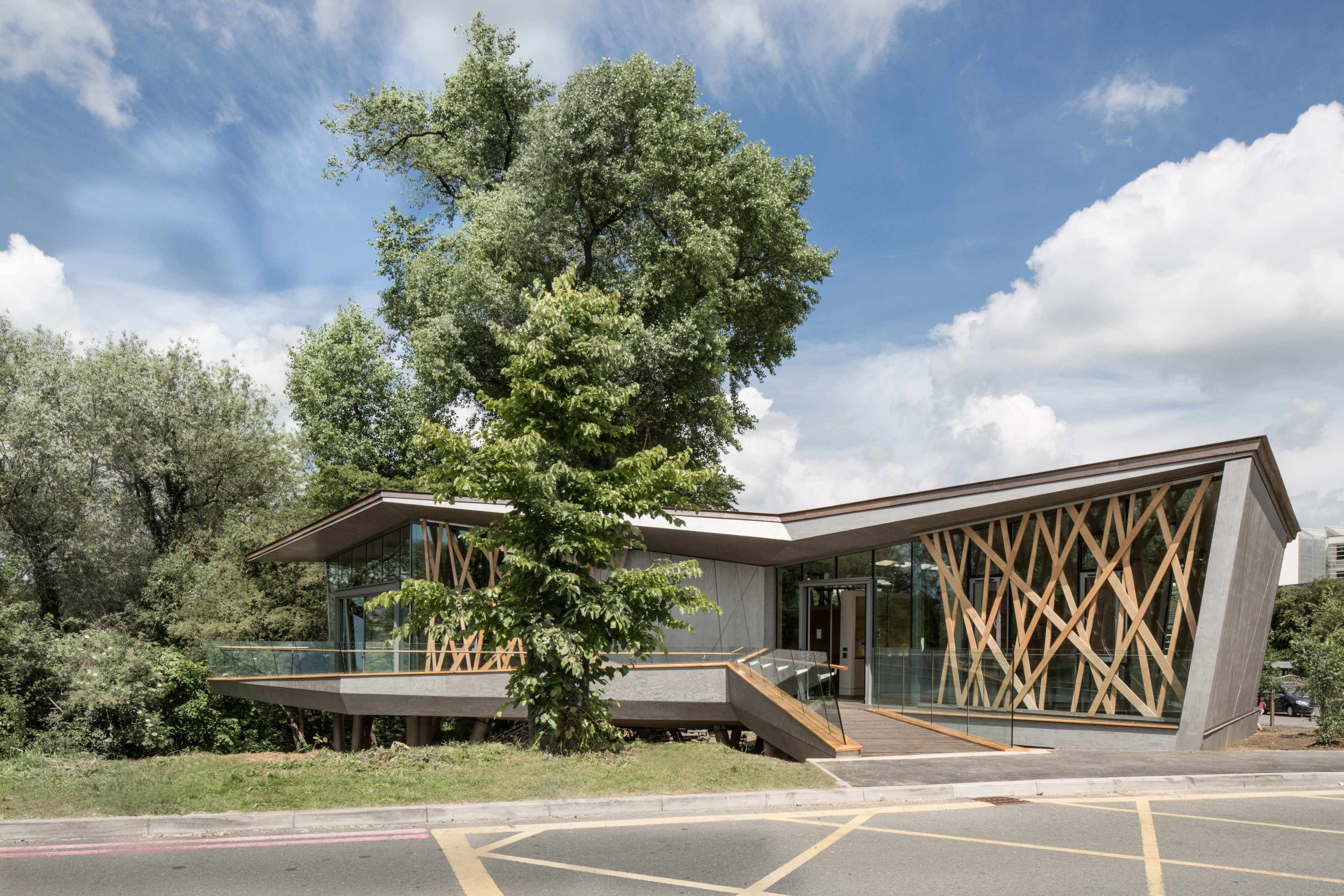 Maggie's Centre Oxford by architects WilkinsonEyre